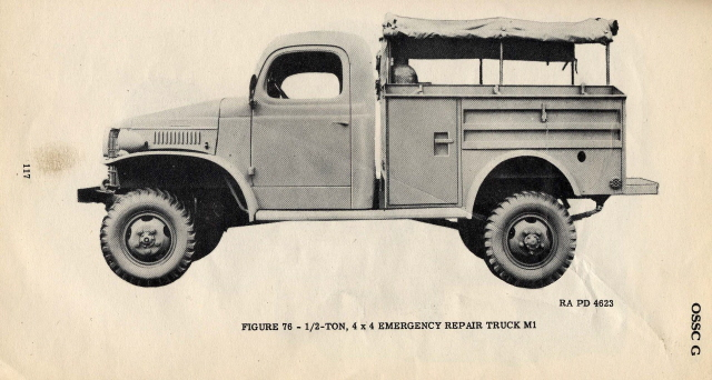 M1 light repair truck (Dodge WC-41 / T-215)